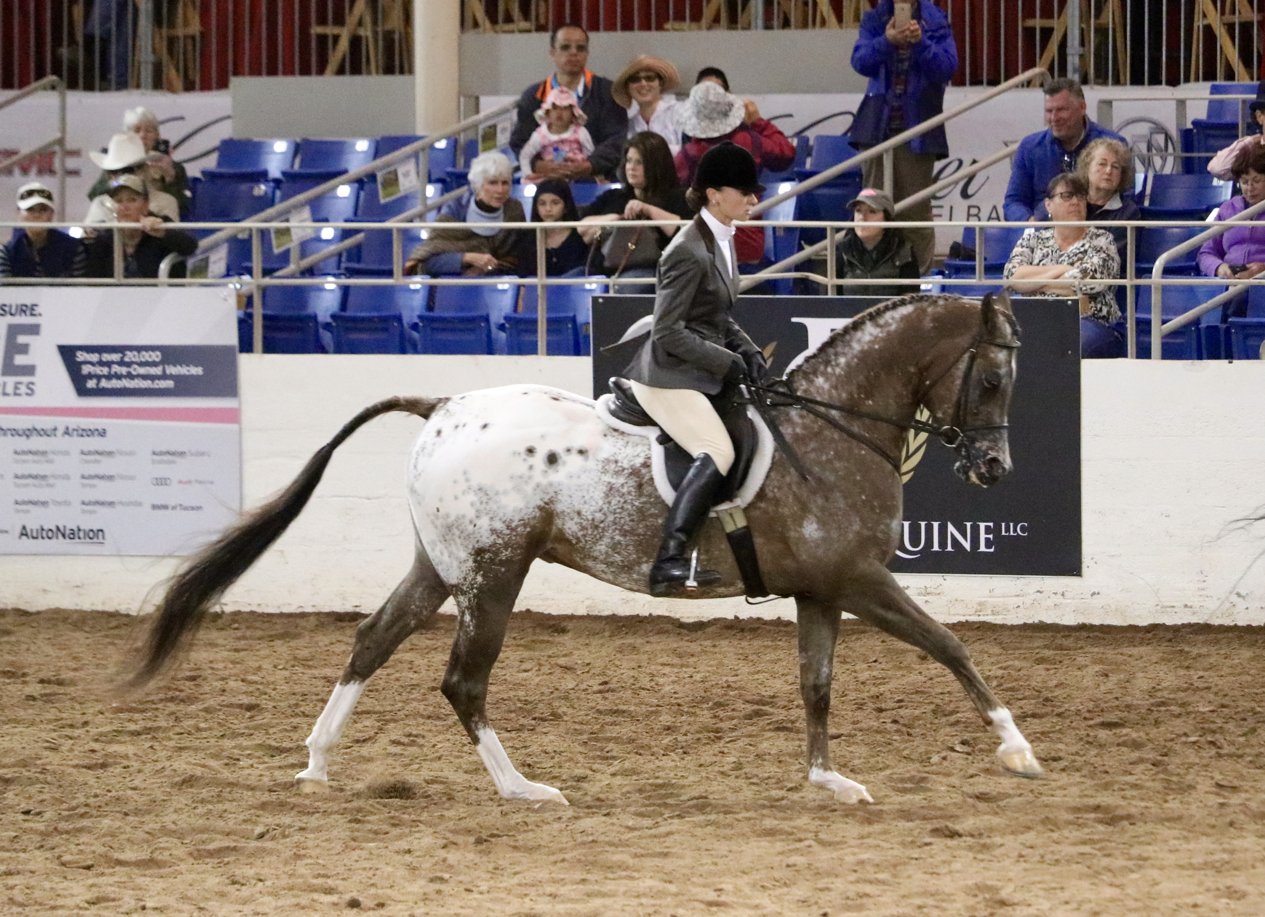 A partbred Arabian/Appaloosa (AraAppaloosa or Araloosa) at the 2017 Scottsdale Arabian Horse show